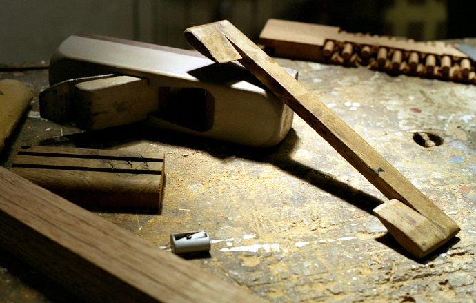 Tracing tool used in carpentry of navy on wood pieces for the design of the masts.